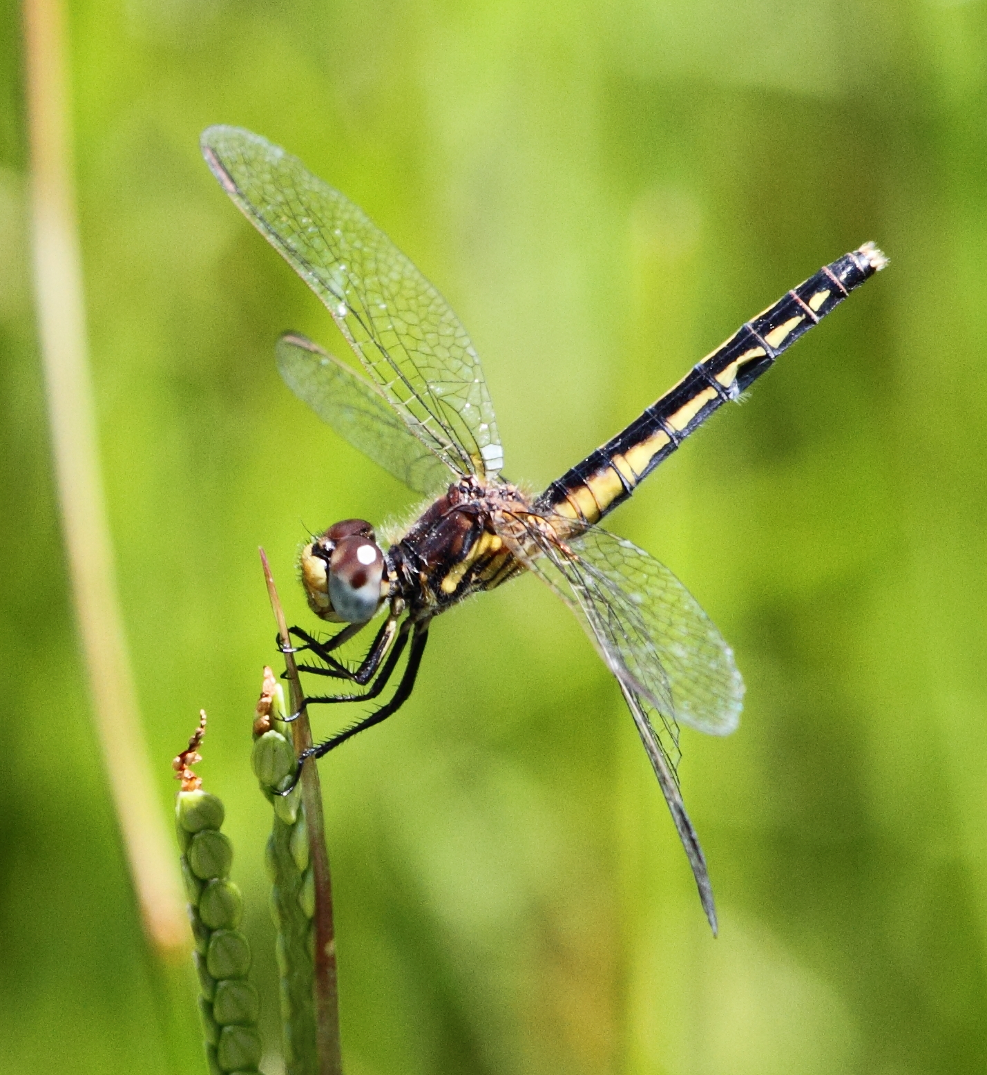 Dwarf Percher female at Himeville Nature Reserve, KwaZulu-Natal